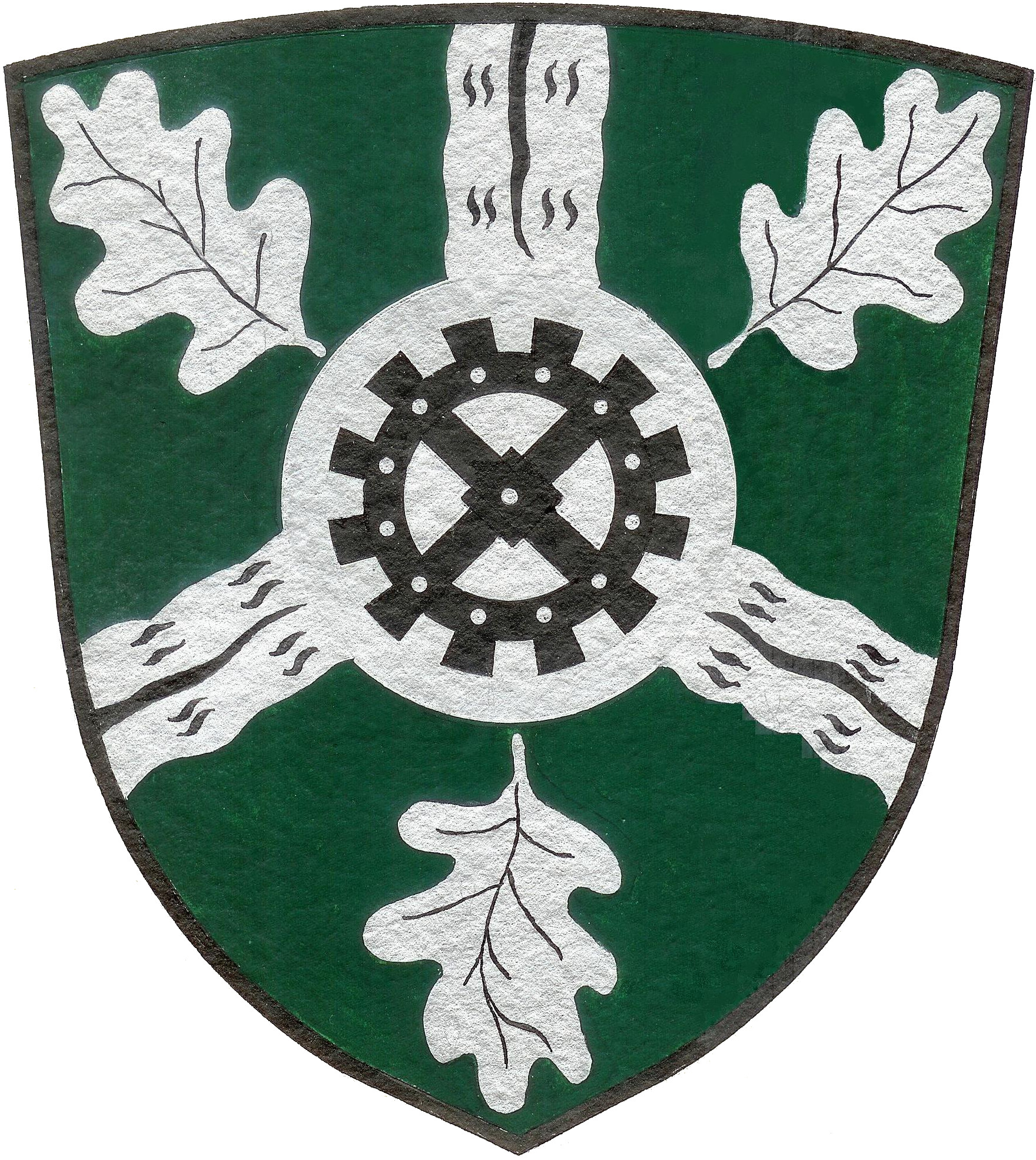 The official and original coat of arms of the municipality Aumühle in Schleswig-Holstein, Germany.